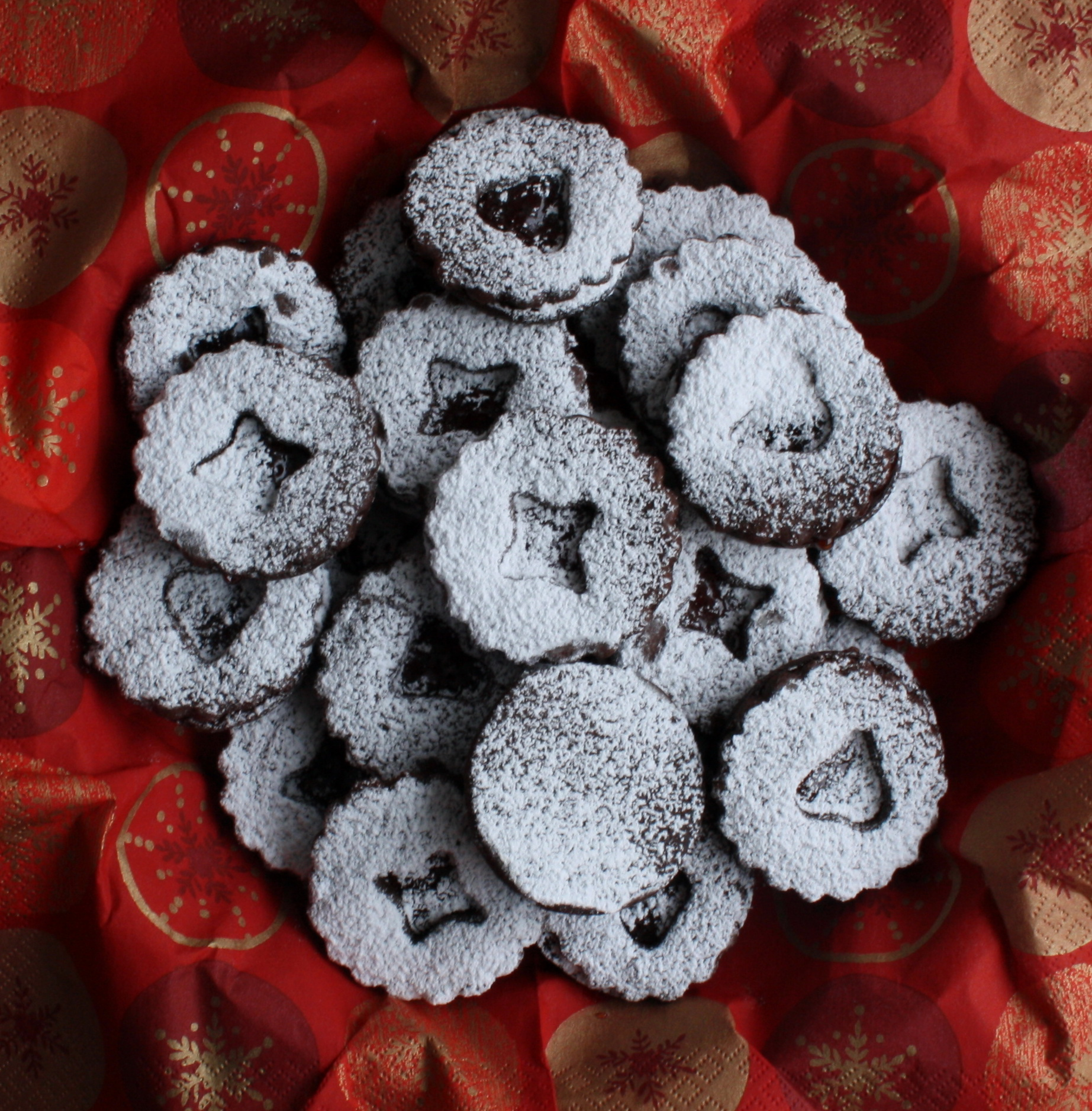 Christmas cookies dusted with powdered sugar. Held together with jam.